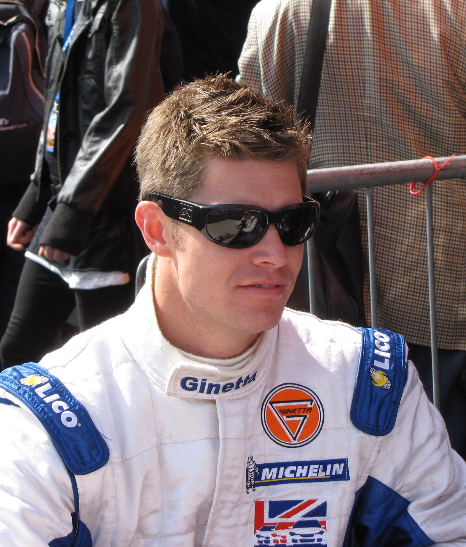 Guy Smith during the autograph session in Spa 2009.